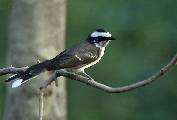 White-browed Fantail Rhipidura aureola at Sindhrot in Vadodara District of Gujarat, India.